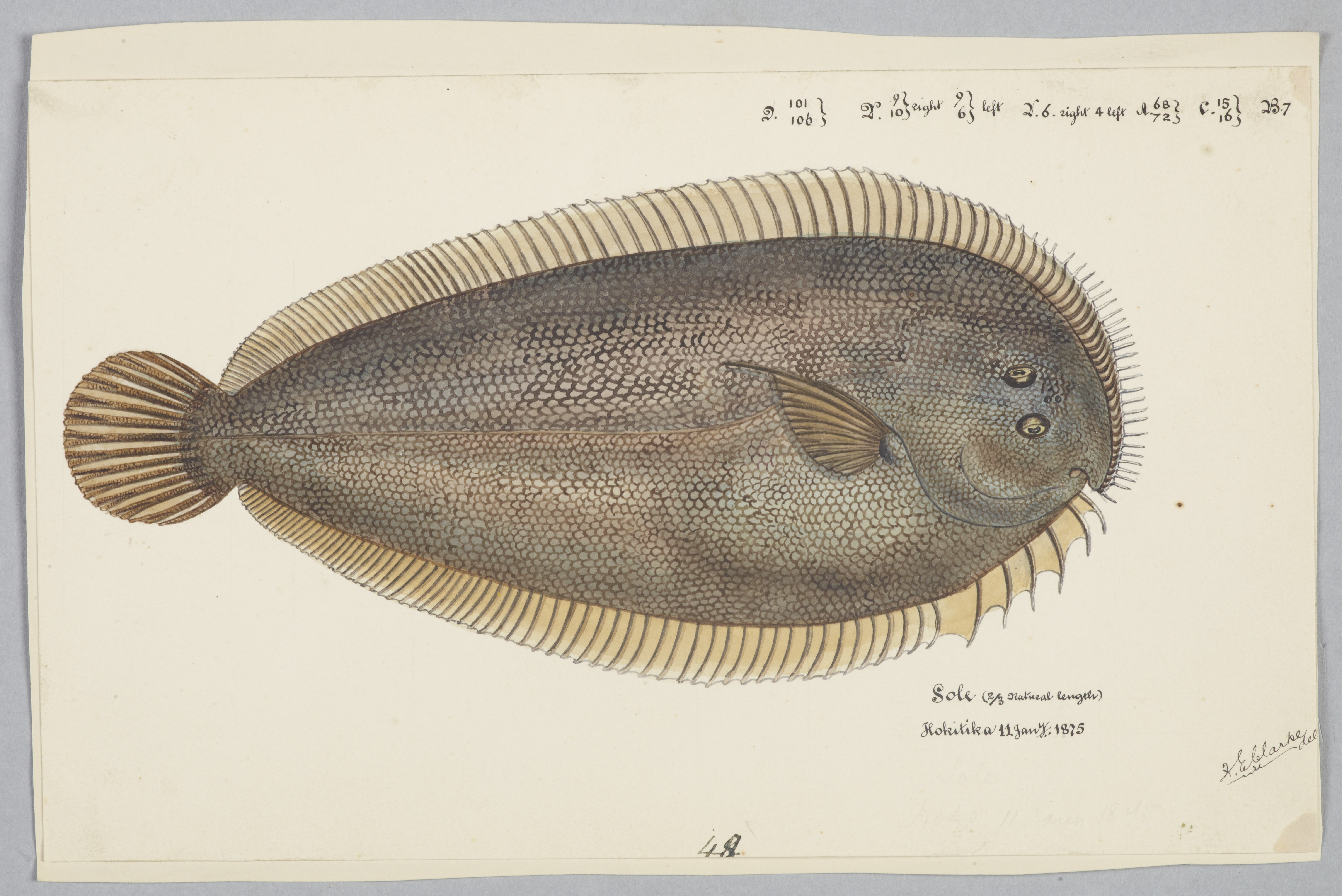 Peltorhamphus novaezeelandiae (NZ) : New Zealand sole, 1875, by Frank Edward Clarke. Purchased 1921. Te Papa (1992-0035-2278/29)